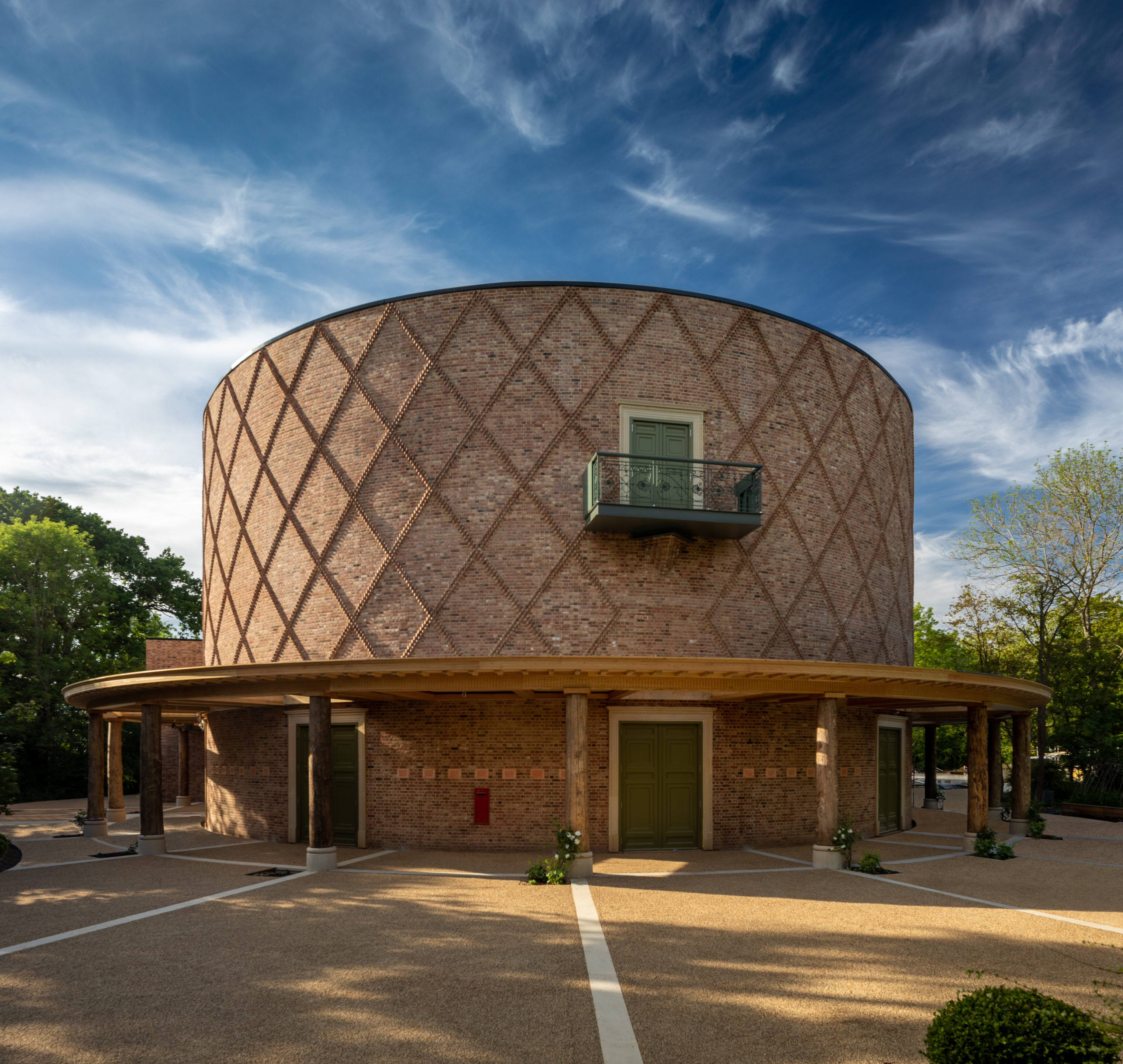 The Theatre in the Woods. Credit: Richard Lewisohn